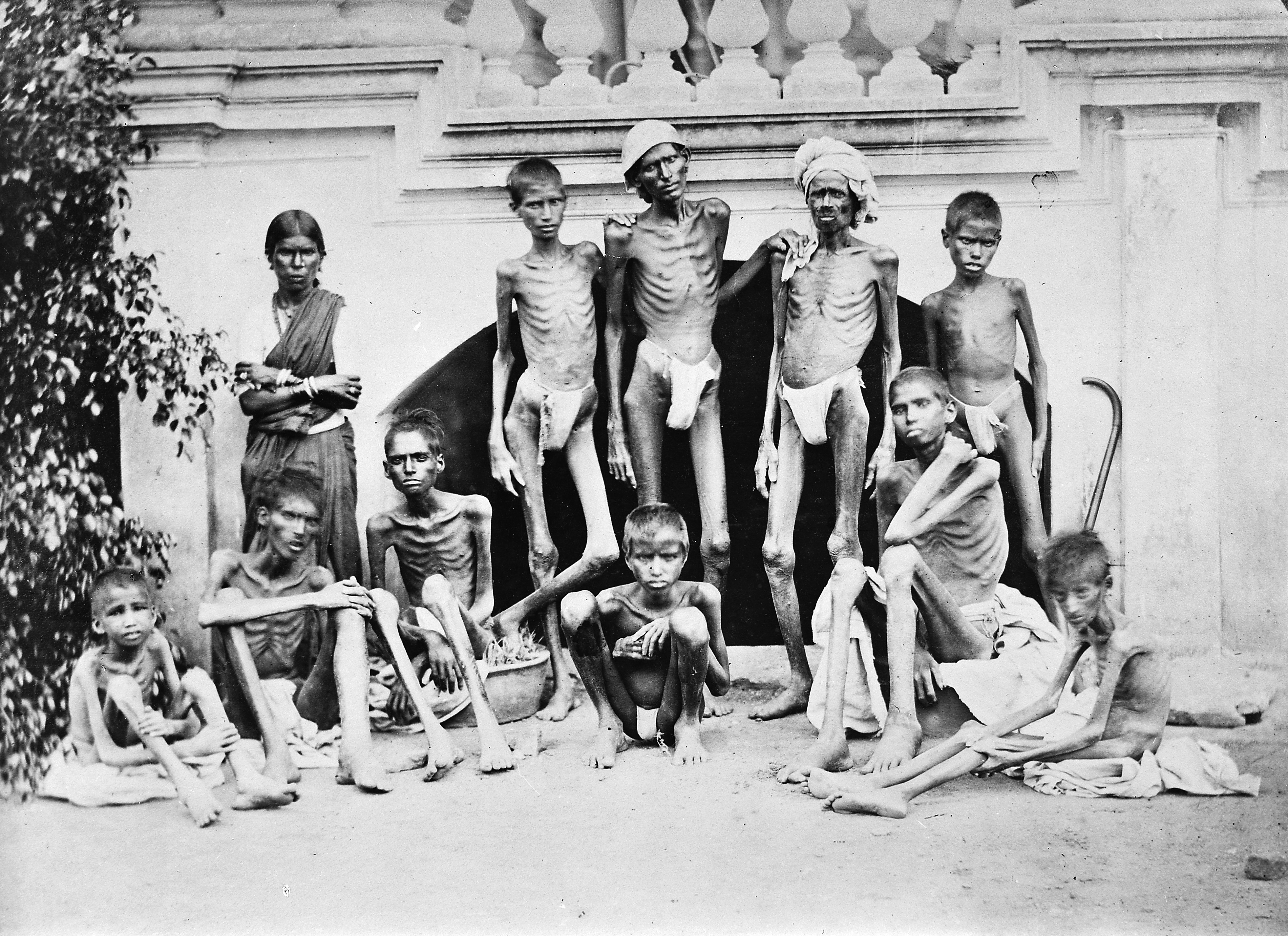 Famine stricken people during the famine of 1876-78 in Bangalore. Wellcome Images Keywords: Plague